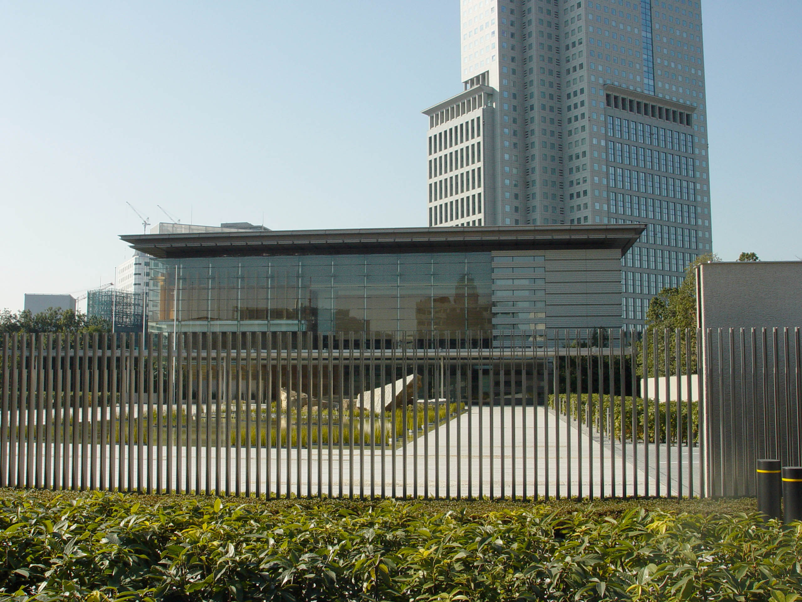 The Prime Minister's Official Residence. It is the principal workplace and residence of the Prime Minister of Japan.